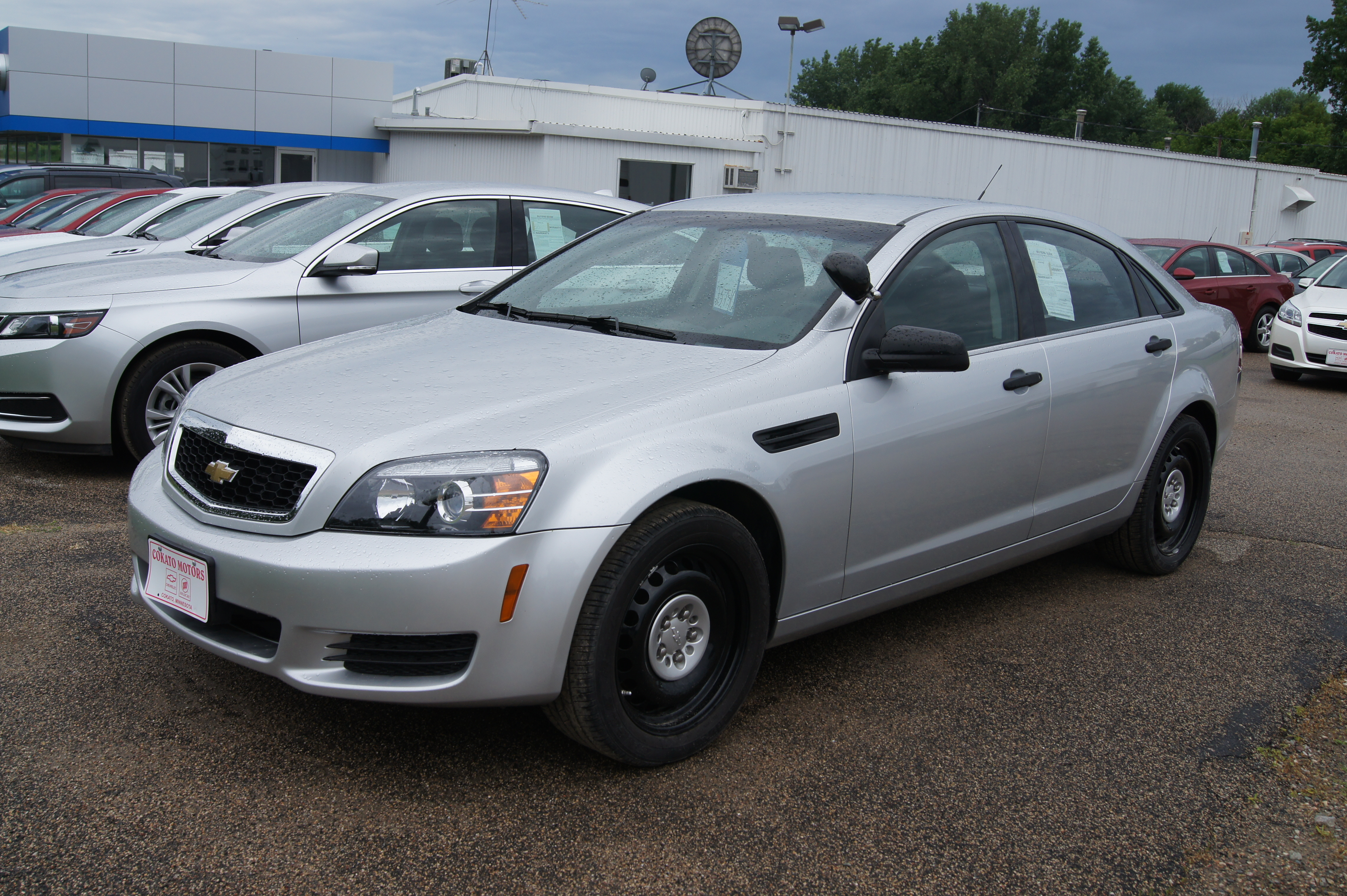 I bought my 2005 Dodge Magnum RT from Walser Chrysler Dodge in Hopkins. It came with free oil changes for life. I used to have relatives near the dealership that I would visit. They have all moved away, so now I just try to coordinate some car spotting for the trip. More Car Pictures